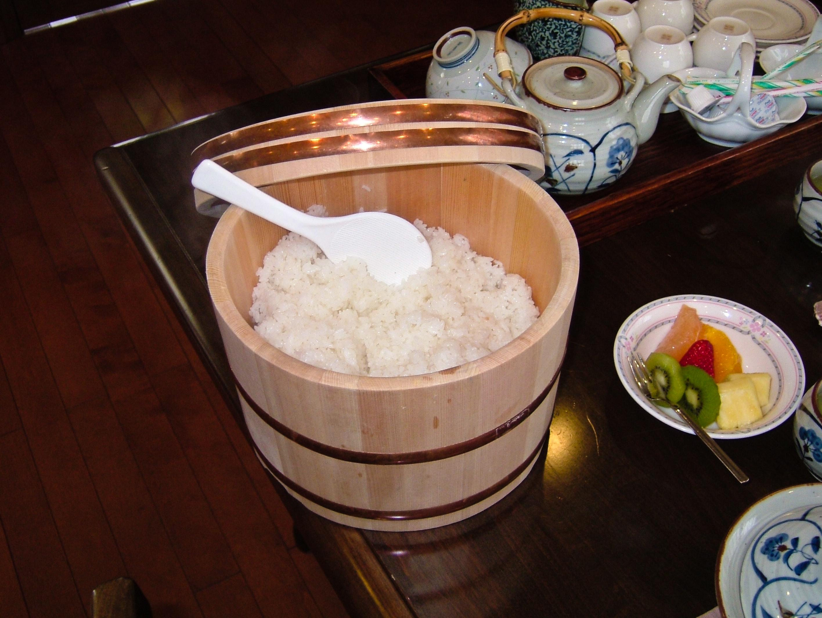 Cooked rice in a traditional wooden tub*, served at a Japanese-style inn in Nirayama, Shizuoka, Japan. *The tub is called ”O-hitsu” (御櫃) or ”Meshi-bitsu” (飯櫃) in Japanese.